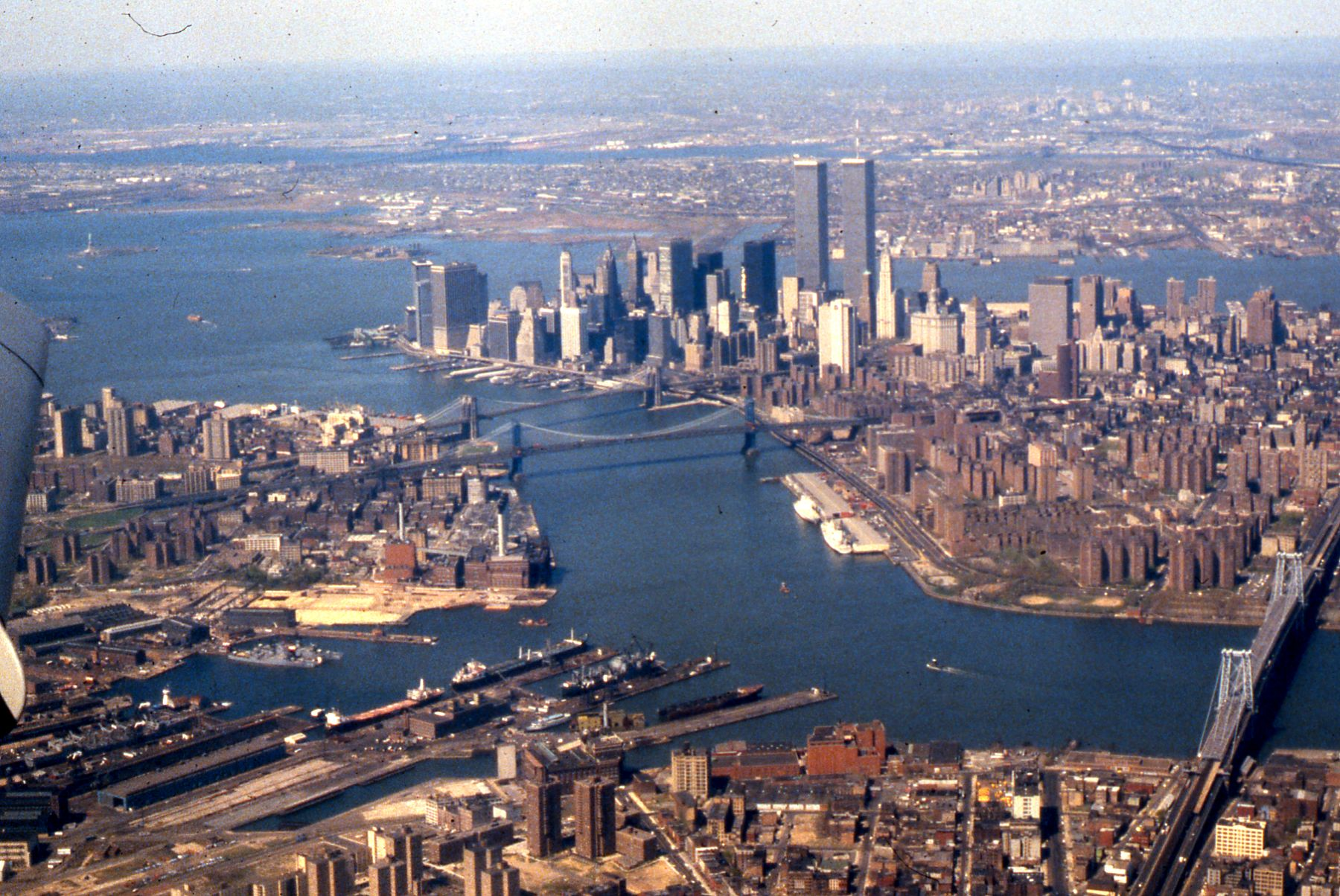 Aerial view of the East River, Lower Manhattan, New York Harbor and the Hudson River, among other things. Other information Photo by George Garrigues